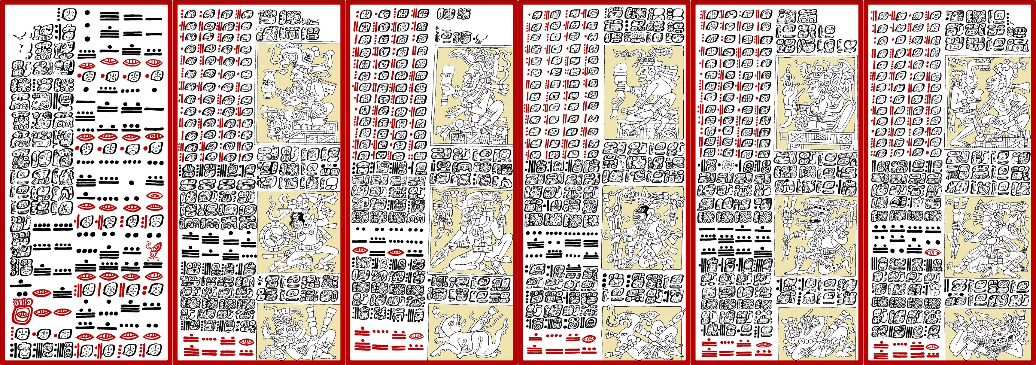 Venus tables in the Dresden Maya Codex, drawn by Lacambalam.